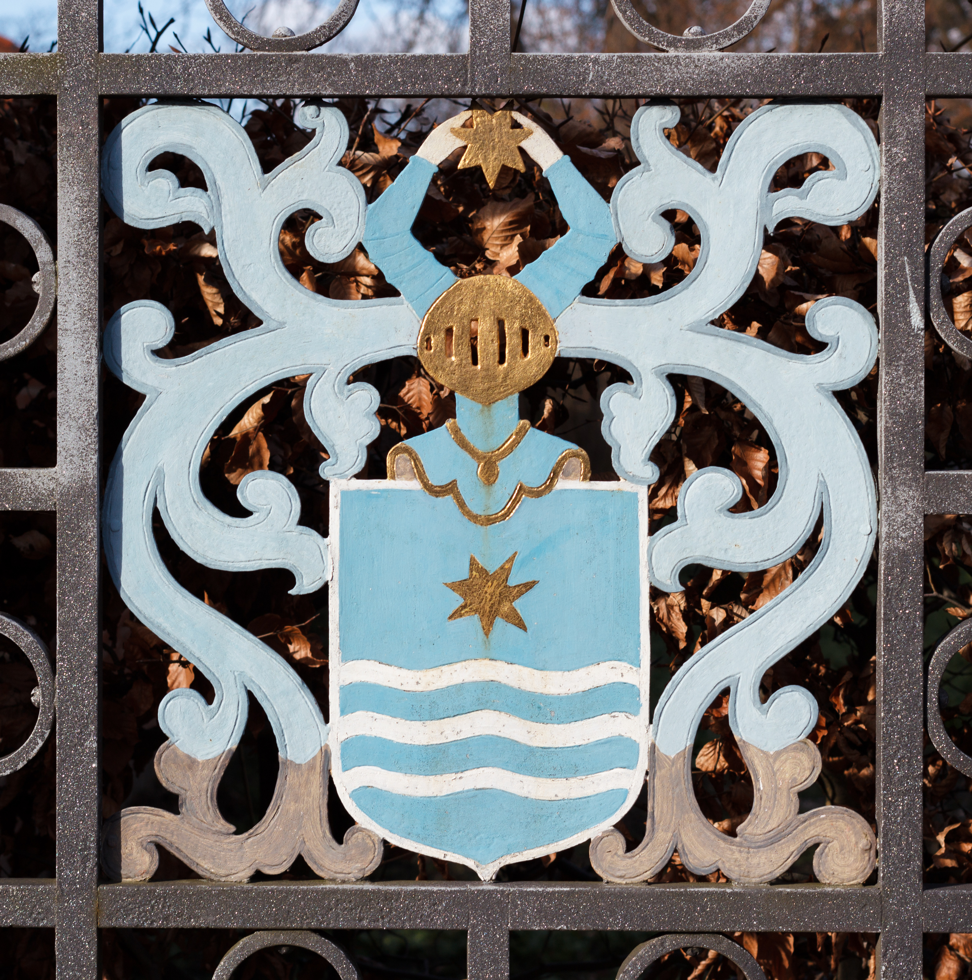 Coat of Arms (Niels Juel family) embedded in entrance gate to St. Cathrine's Priory, Roskilde, Denmark